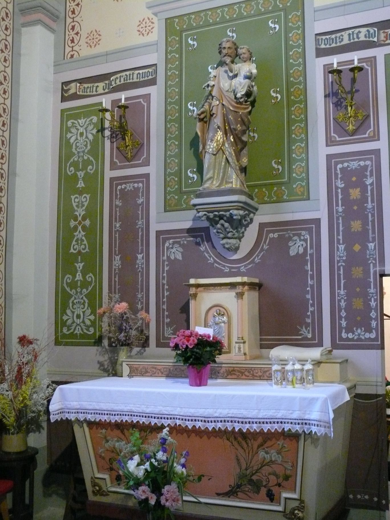 Saint-Peter's church in Nanteuil-le-Haudouin (Oise, Picardie, France).